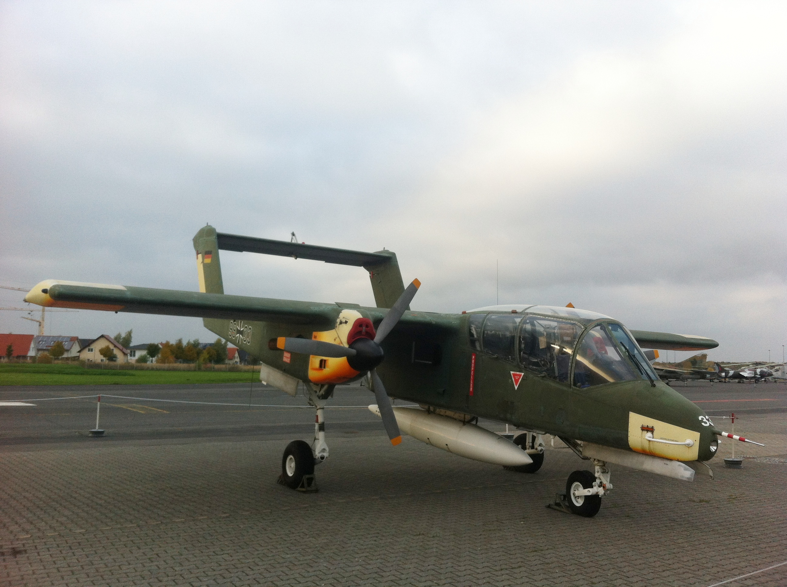 Luftwaffe OV-10 at Gatow